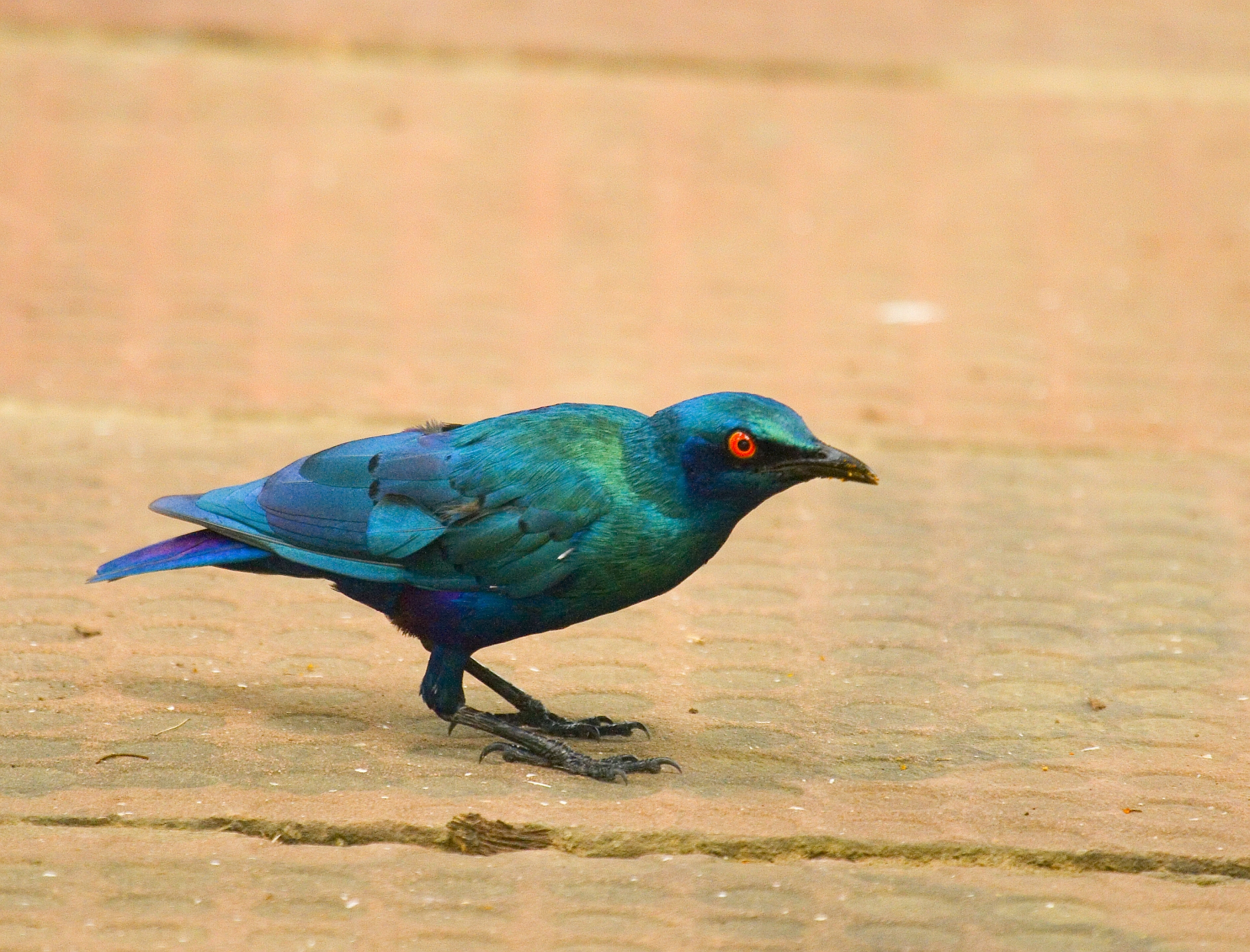 Lesser blue-eared glossy-starling in a garden at Sukuta, The Gambia, West Africa